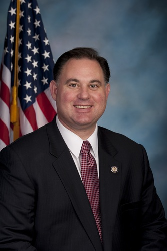 Official portrait of US Rep Frank Guinta